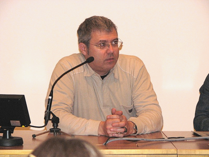 Achdé (Hervé Darmenton, draws Lucky Luke) in Tampere Kuplii comic festival in Tampere Finland 31st March 2007